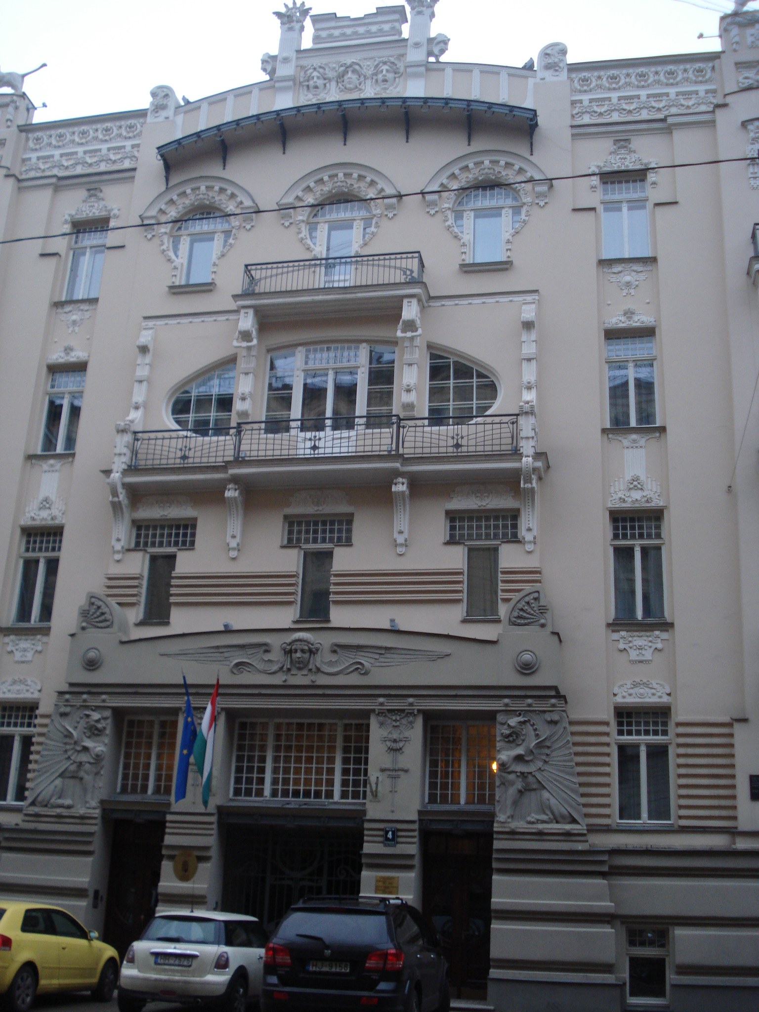 Art Nouveau Building in Riga, Alberta ielā 4. Architect Mikhail Eisenstein (1906). Facade. Now Embassy of Hungary